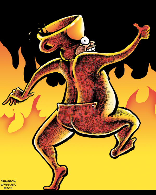 Too Much Coffee Man in Hell